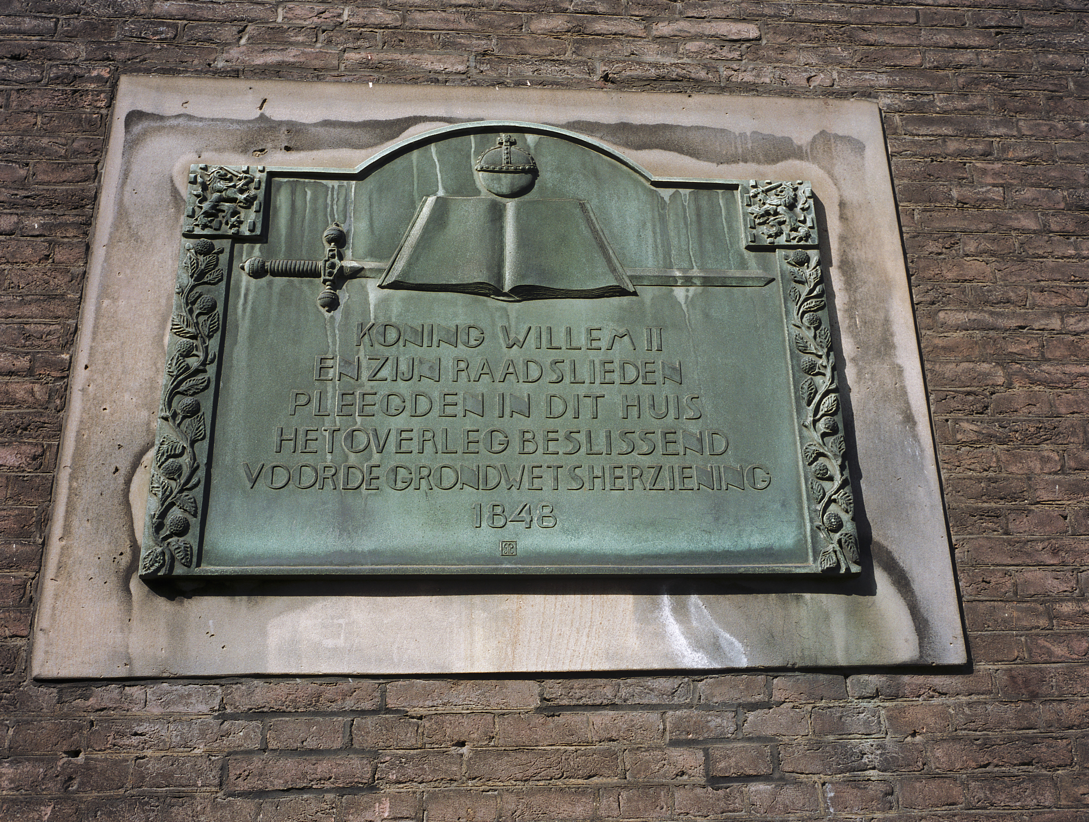 Bronze plaque commemorating the actions of Willem II der Nederlanden during the Revolutions of 1848.